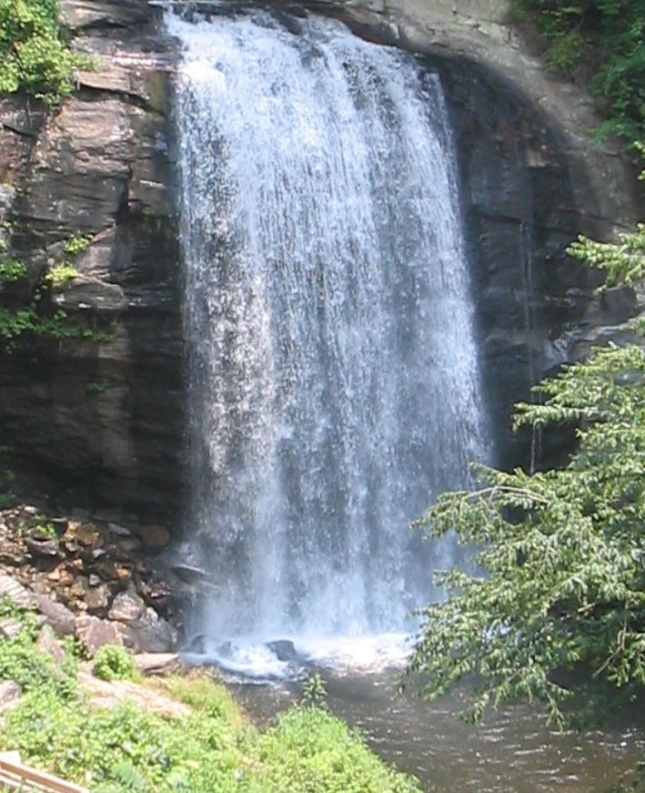 Looking Glass Falls, near Brevard, North Carolina. Photo taken in July 2006, by Gregory Kohs.